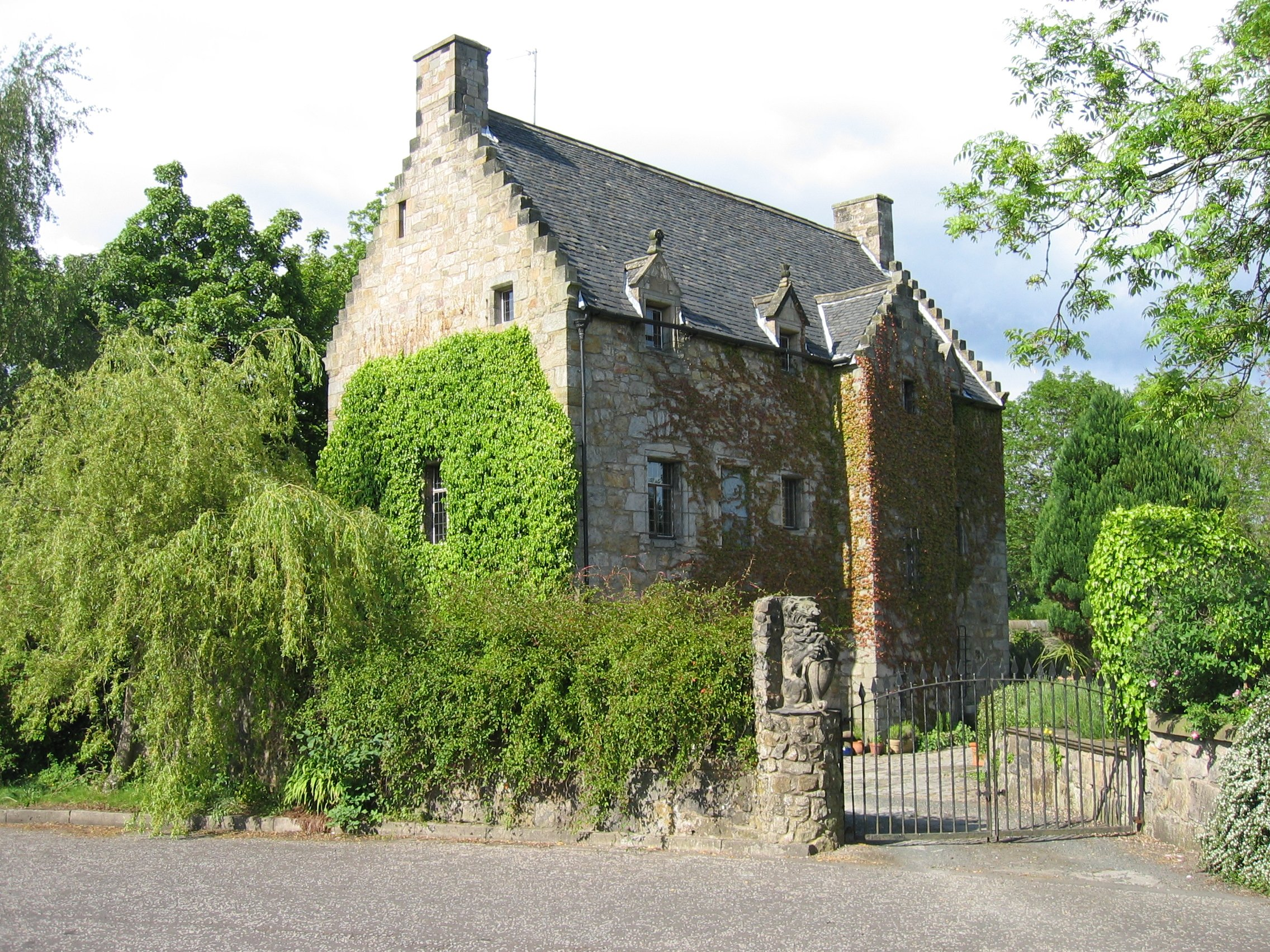 Blackhall Manor in Paisley after its restoration by the town council.